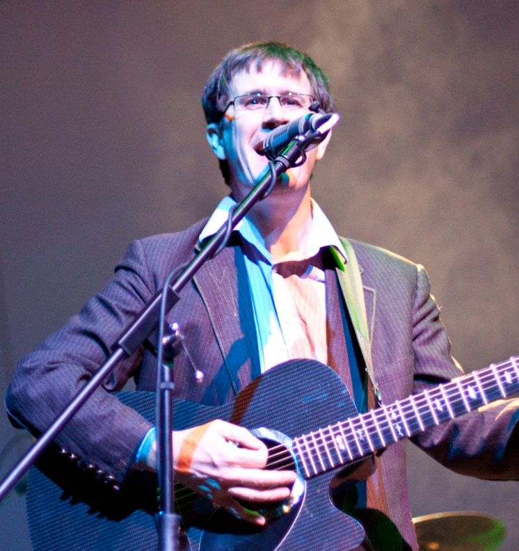 John Darnielle of The Mountain Goats in 2010 Live in Vancouver Canada, June 02 2010